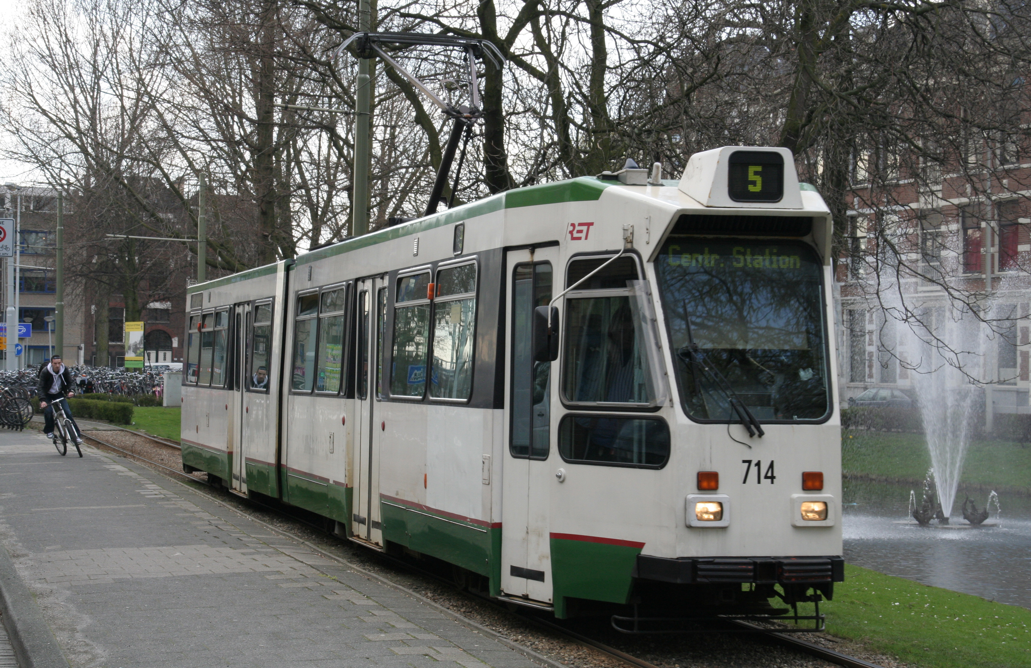 RET 714 in Rotterdam